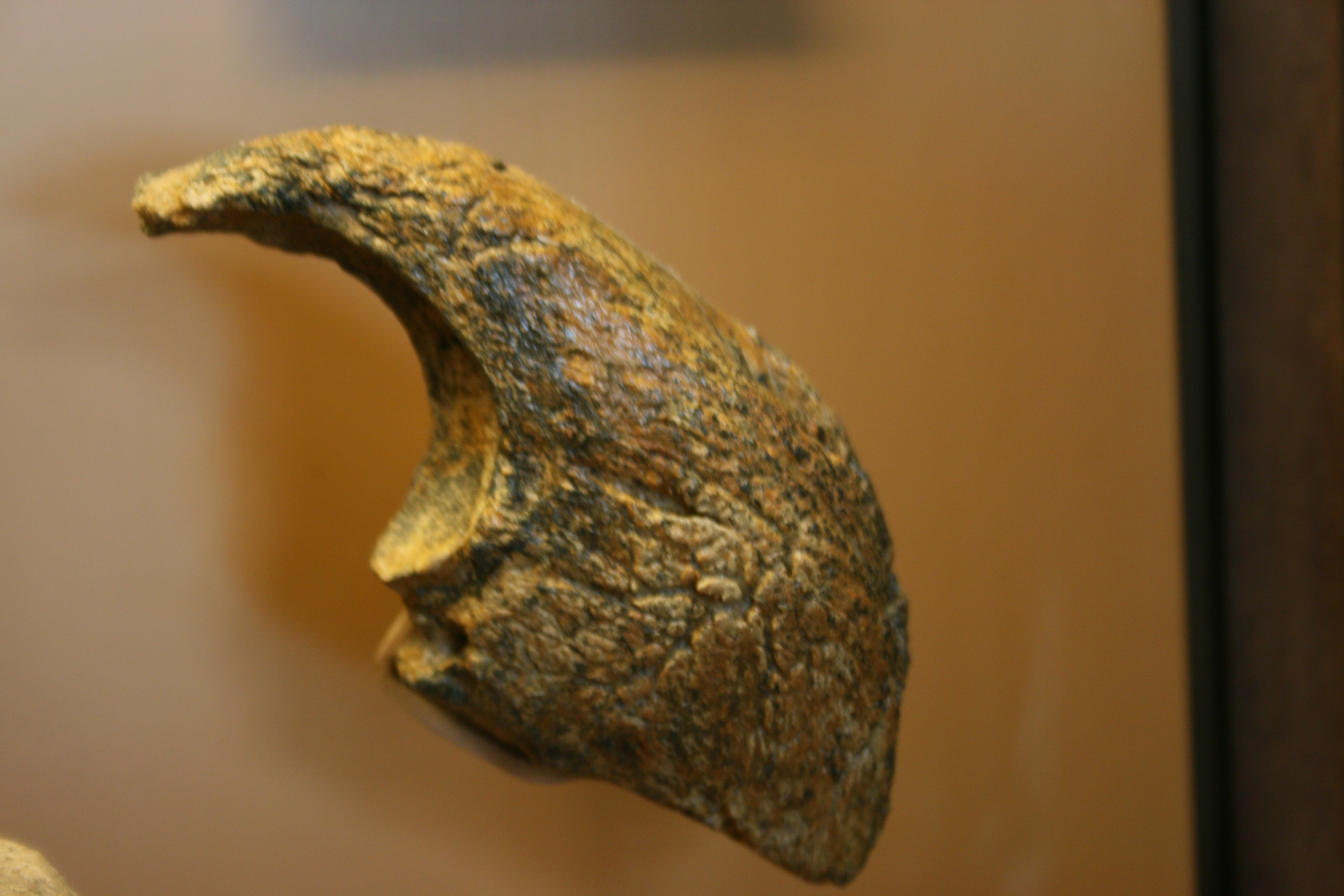 Claw of a Chalicotherium grande